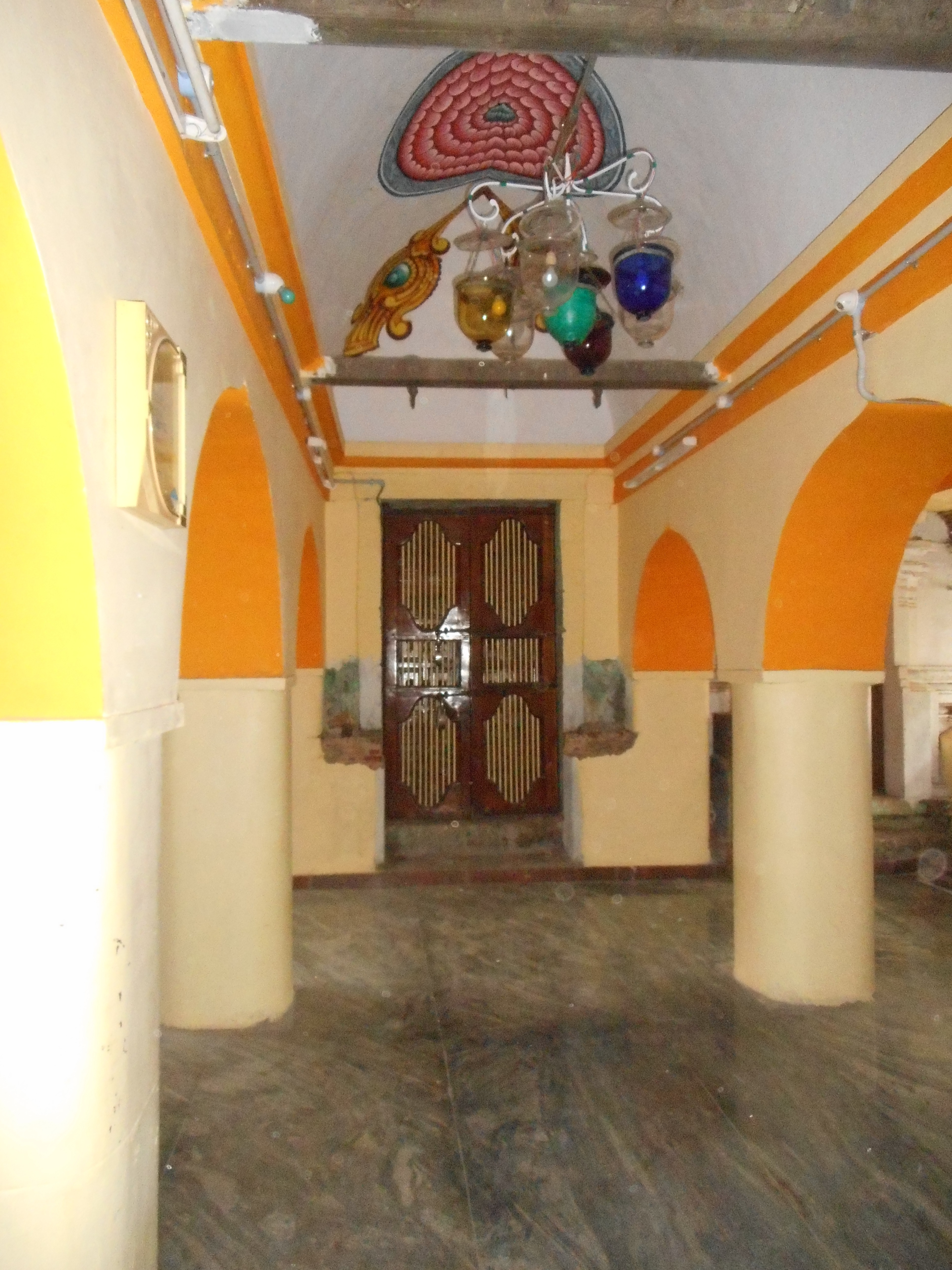 Rajagopalasamy temple sanctum sanctorum entrance ராஜகோபாலசுவாமி கருவறை நுழைவாயில்